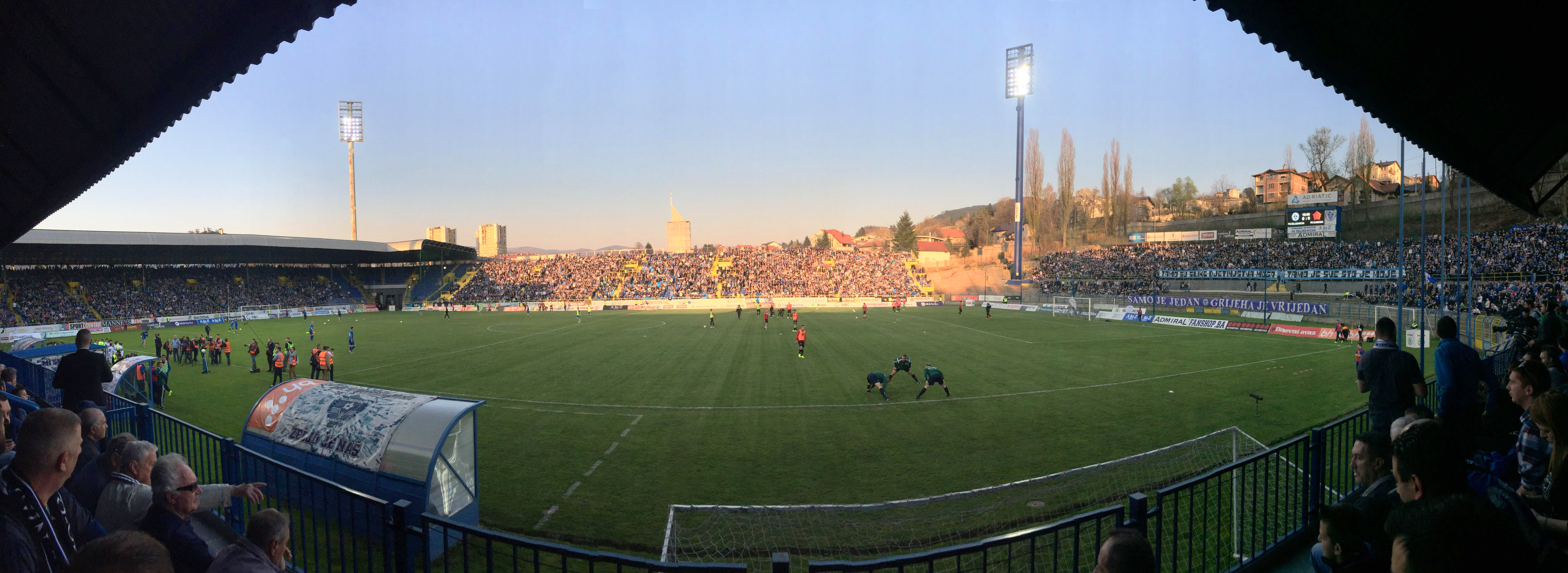 Stadium Grbavica on April 1st 2017 match between home team FK Željezničar playing against visitors from Tuzla FK Sloboda.